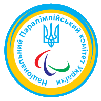 Національний комітет спорту інвалідів України